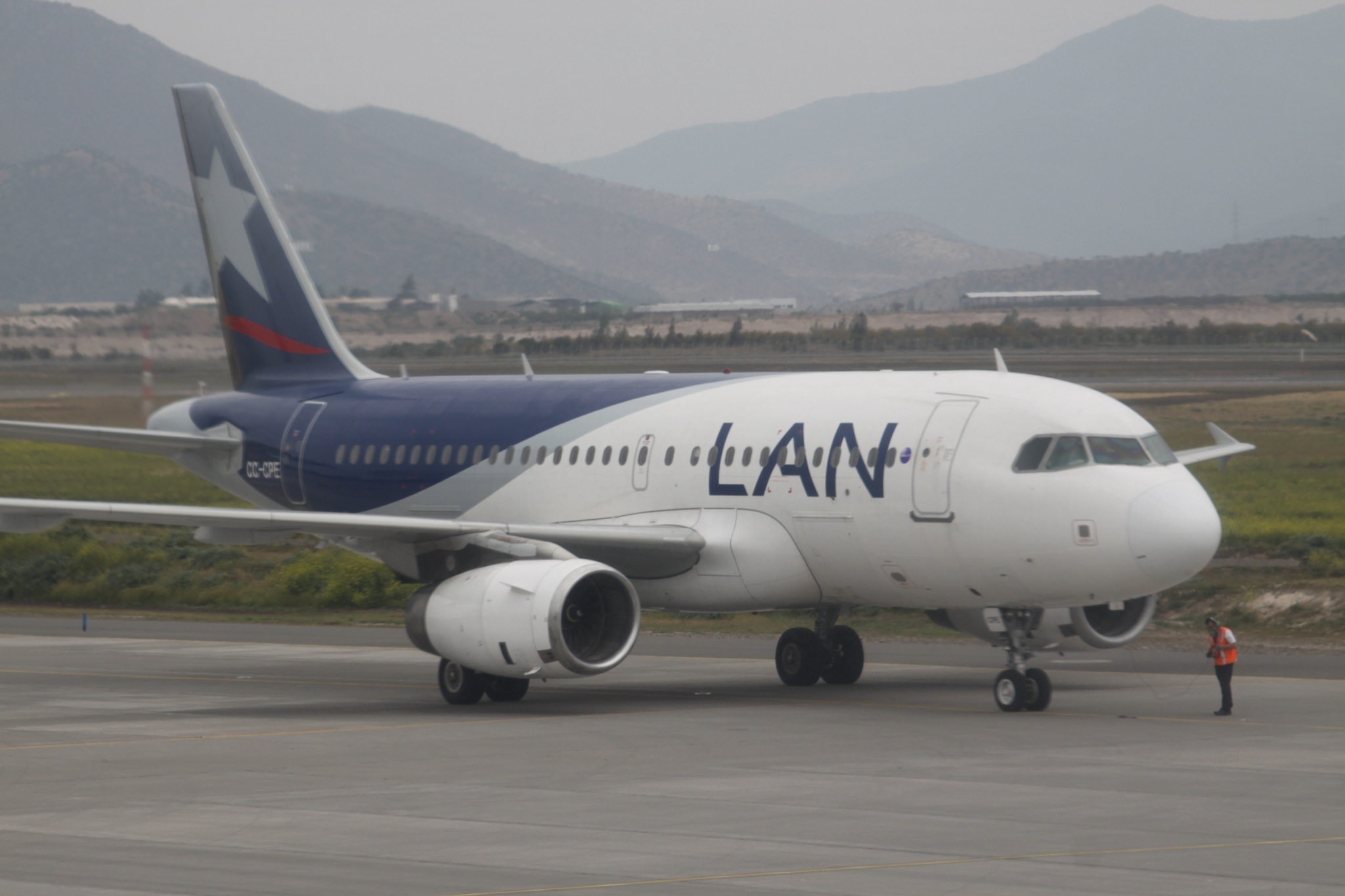 At Santiago